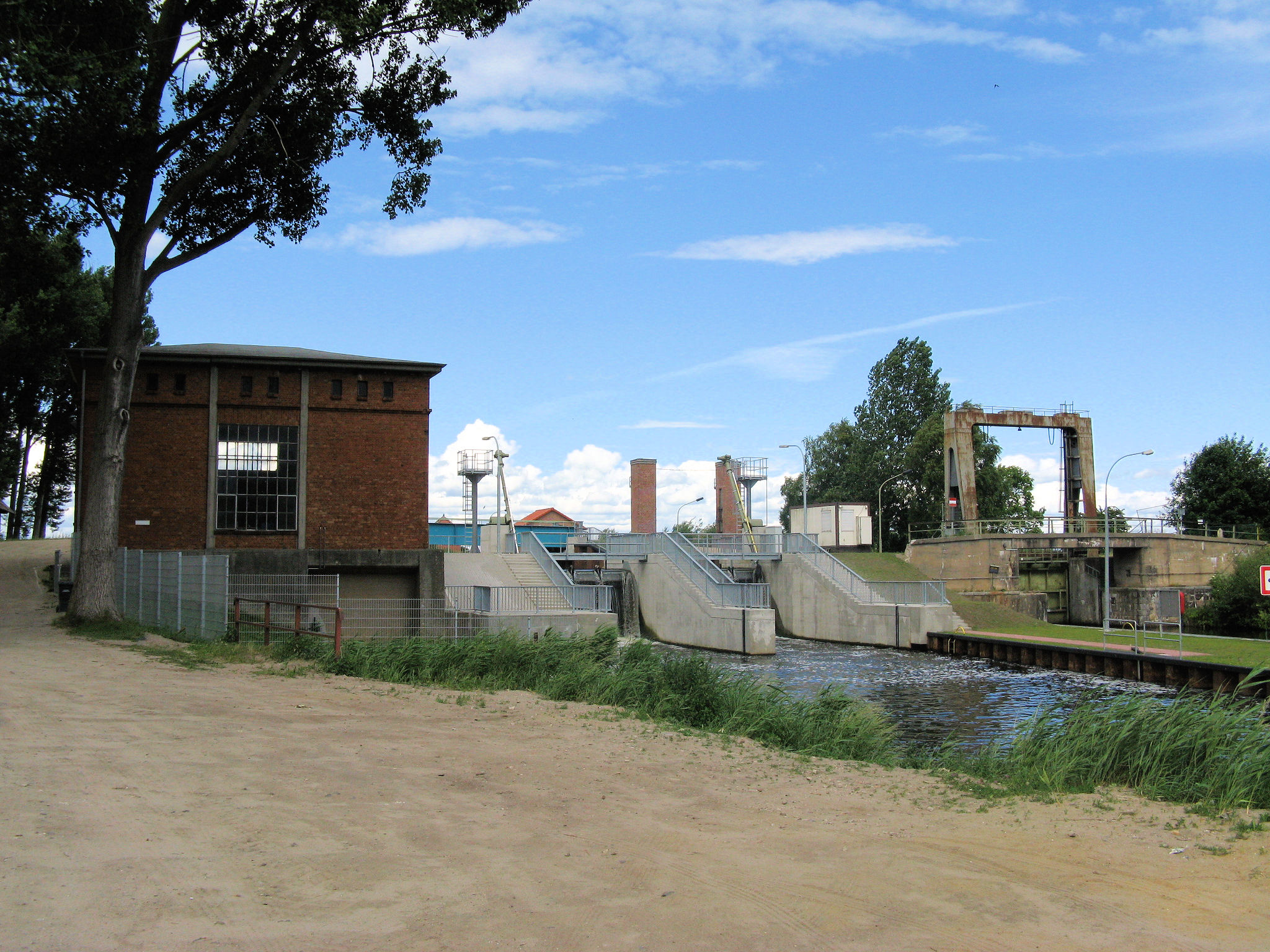 Canal lock Lewitzschleuse and hydroelectric plant in Neustadt-Glewe, disctrict Ludwigslust, Mecklenburg-Vorpommern, Germany